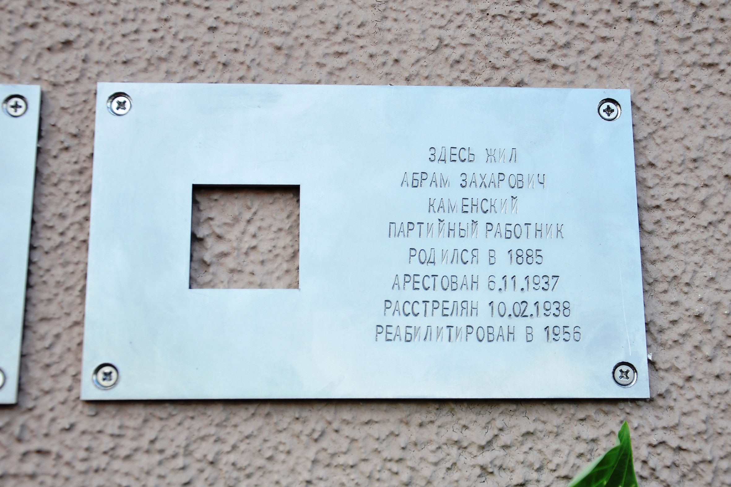 The Last Address Sign is a commemorative plaque that is installed on the last known residential address of victims of the Soviet Union's Communist regime. The memorial sign is a small, 11x19 cm stainless steel plaque that contains information about the repressed person. This information usually contains his or her name, profession, date of birth, date of arrest, date and reason of death (was shot or died in a Soviet concentration camp), and date of rehabilitation ('for lack of corpus delicti').